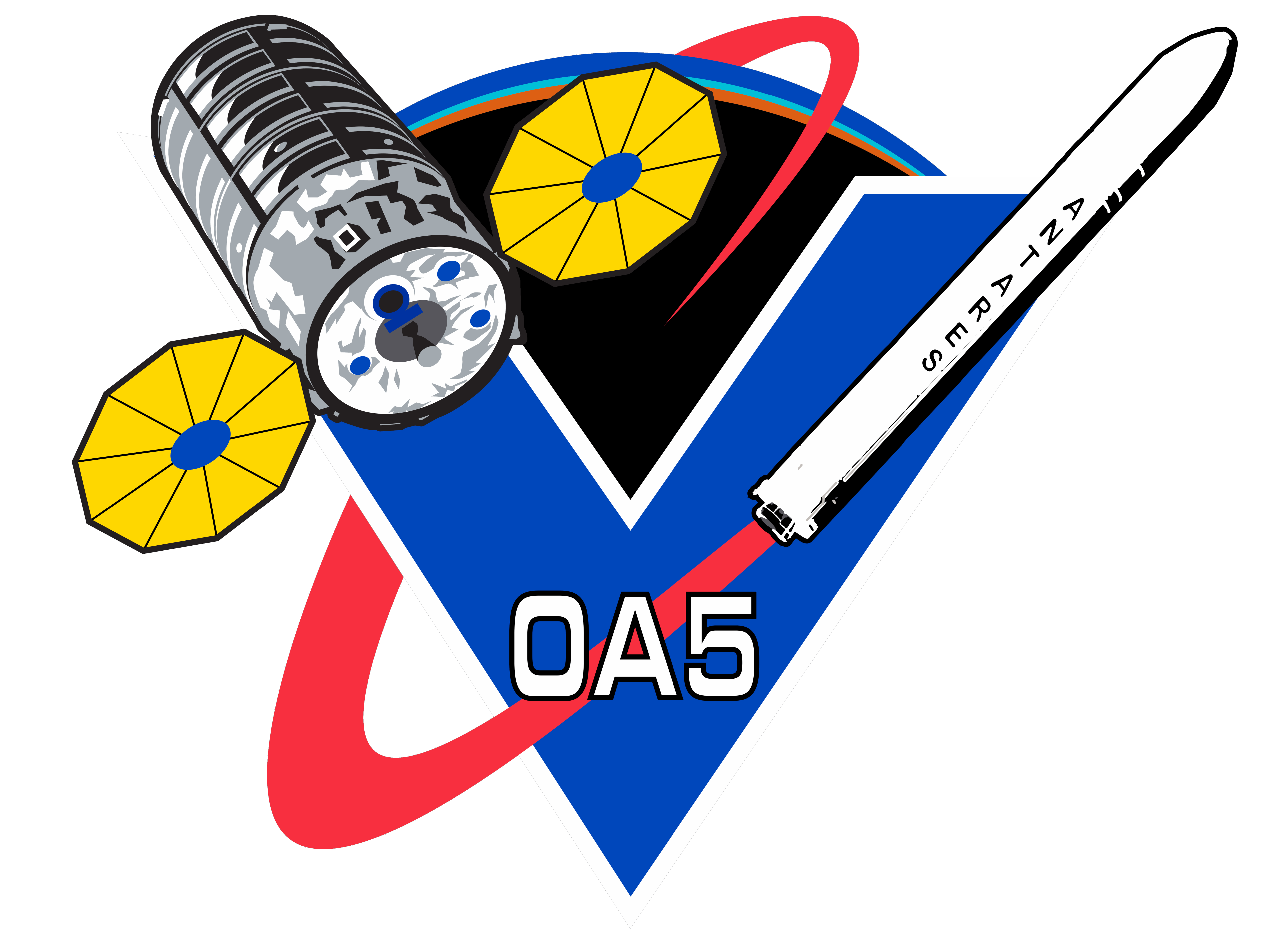 NASA insignia for Orbital ATK's OA-5 resupply flight